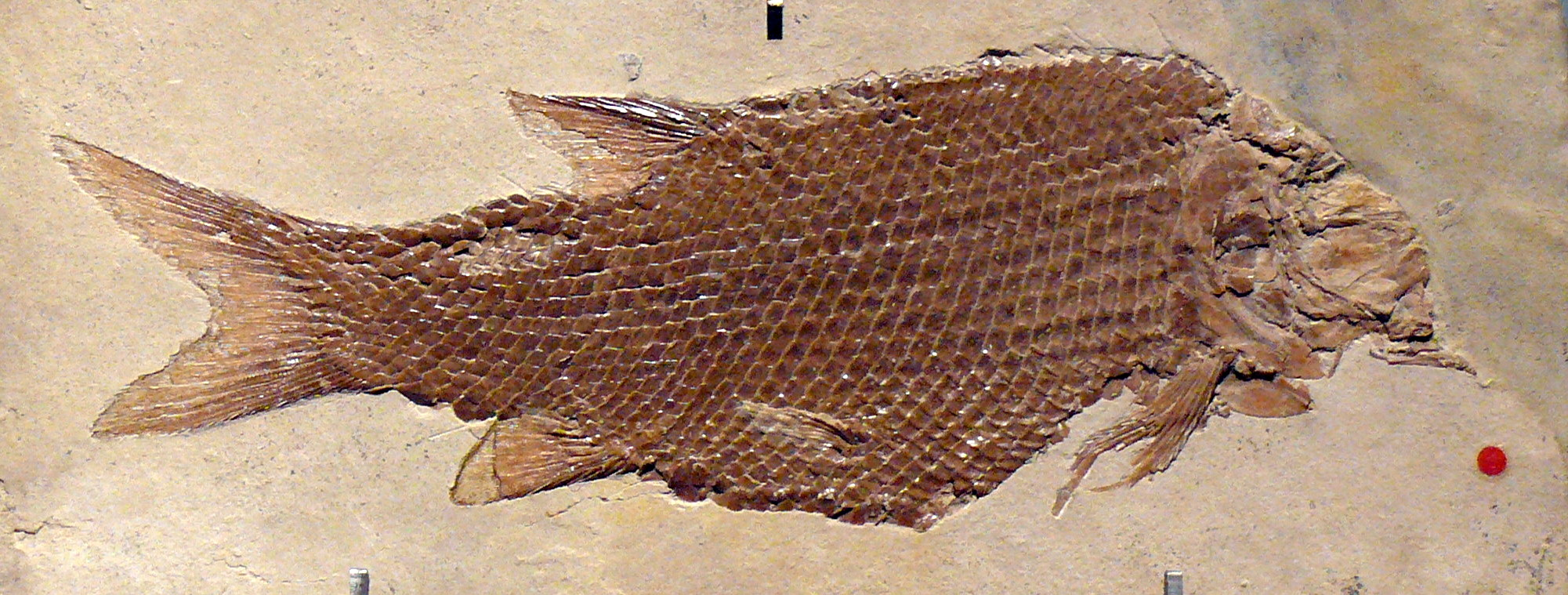 Callipurbeckia minor (Synonym Lepidotes notopterus) from the Solnhofen limestones, Solhofen, Germany